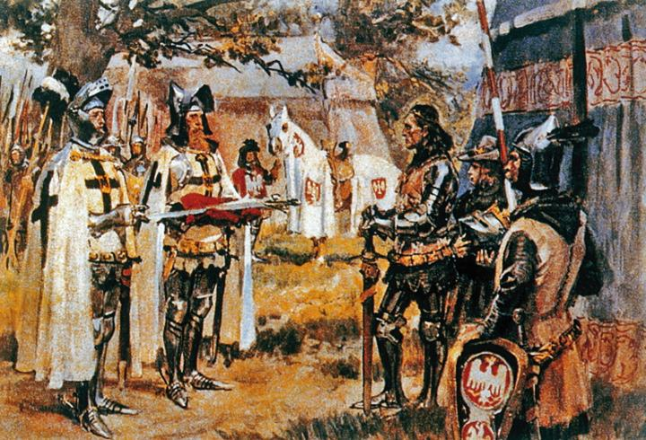 Two Swords